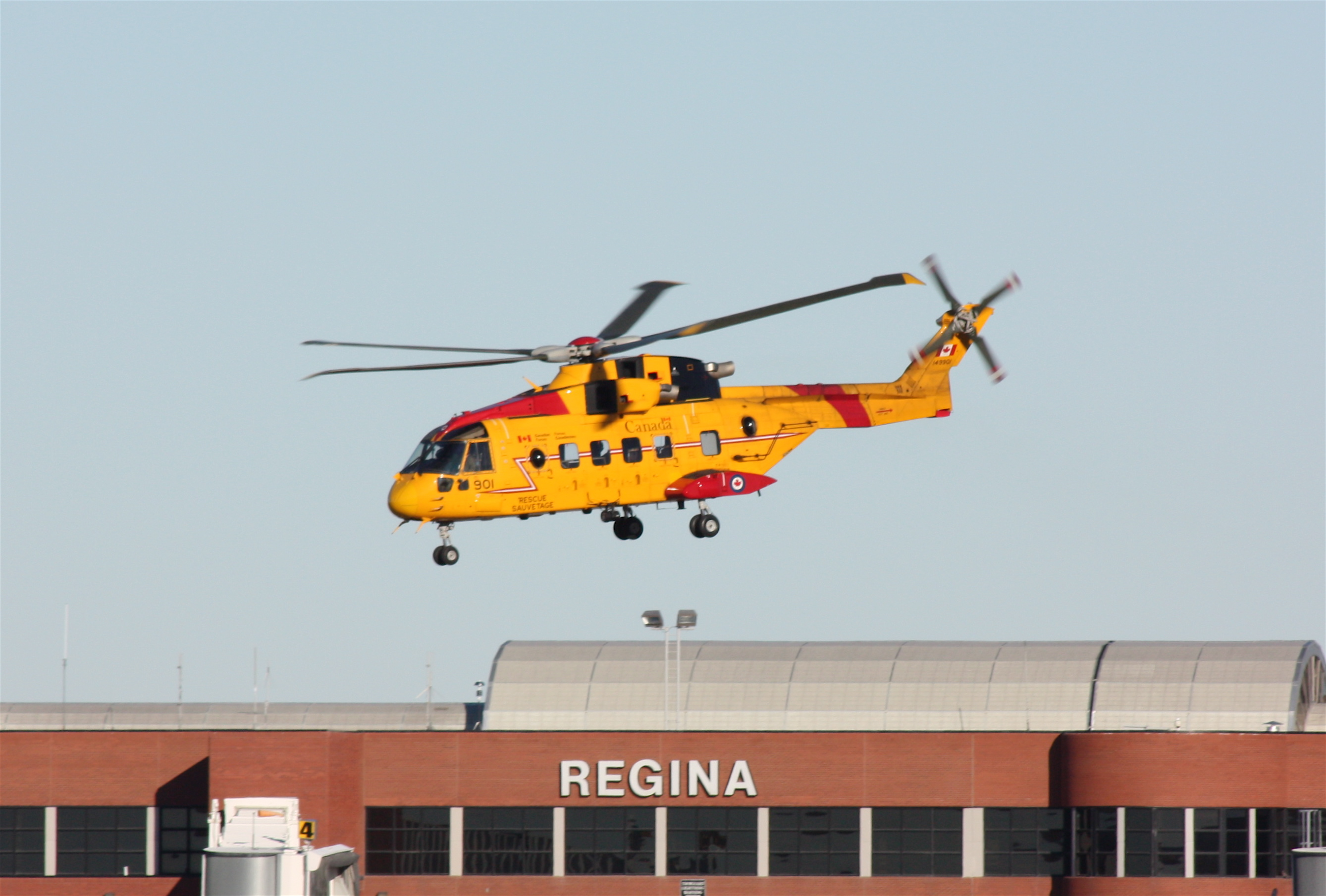 Canada Air Force Search and Rescue Cormorant helicopter.